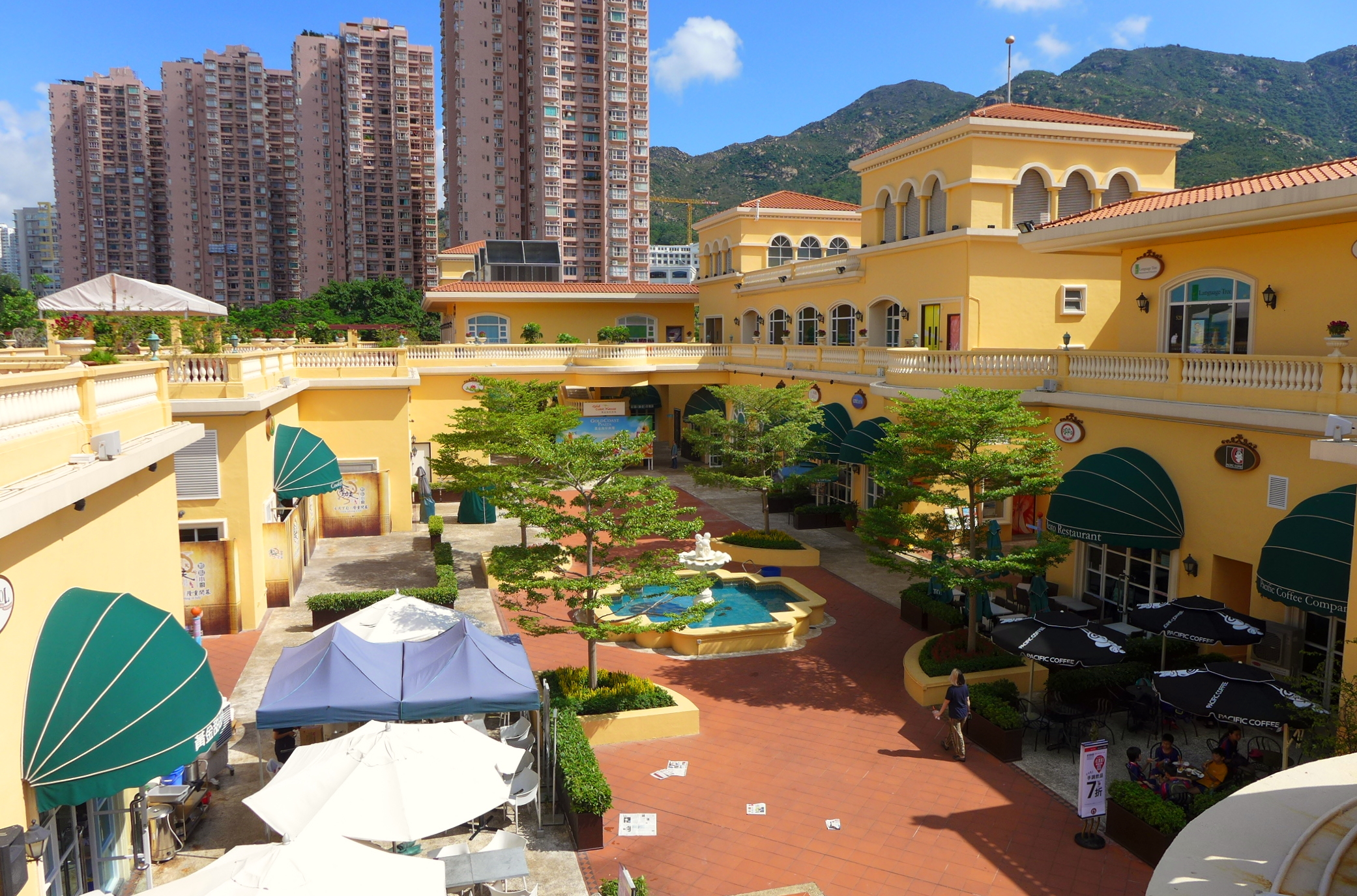 HK GoldCoast Marina Magic Shopping Mall